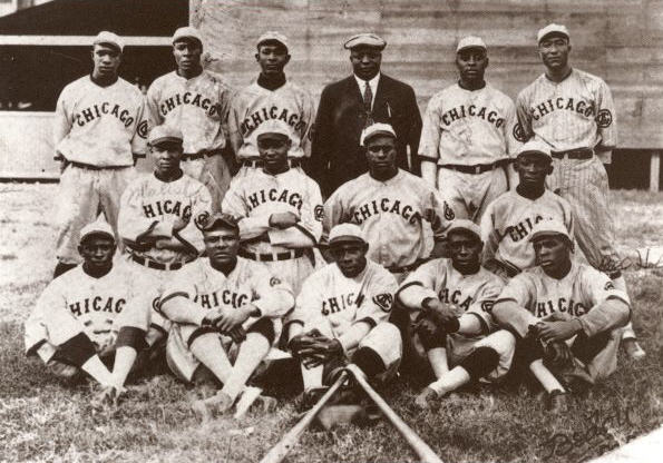 Team publicity photo for 1919 Chicago American Giants, an African American baseball team